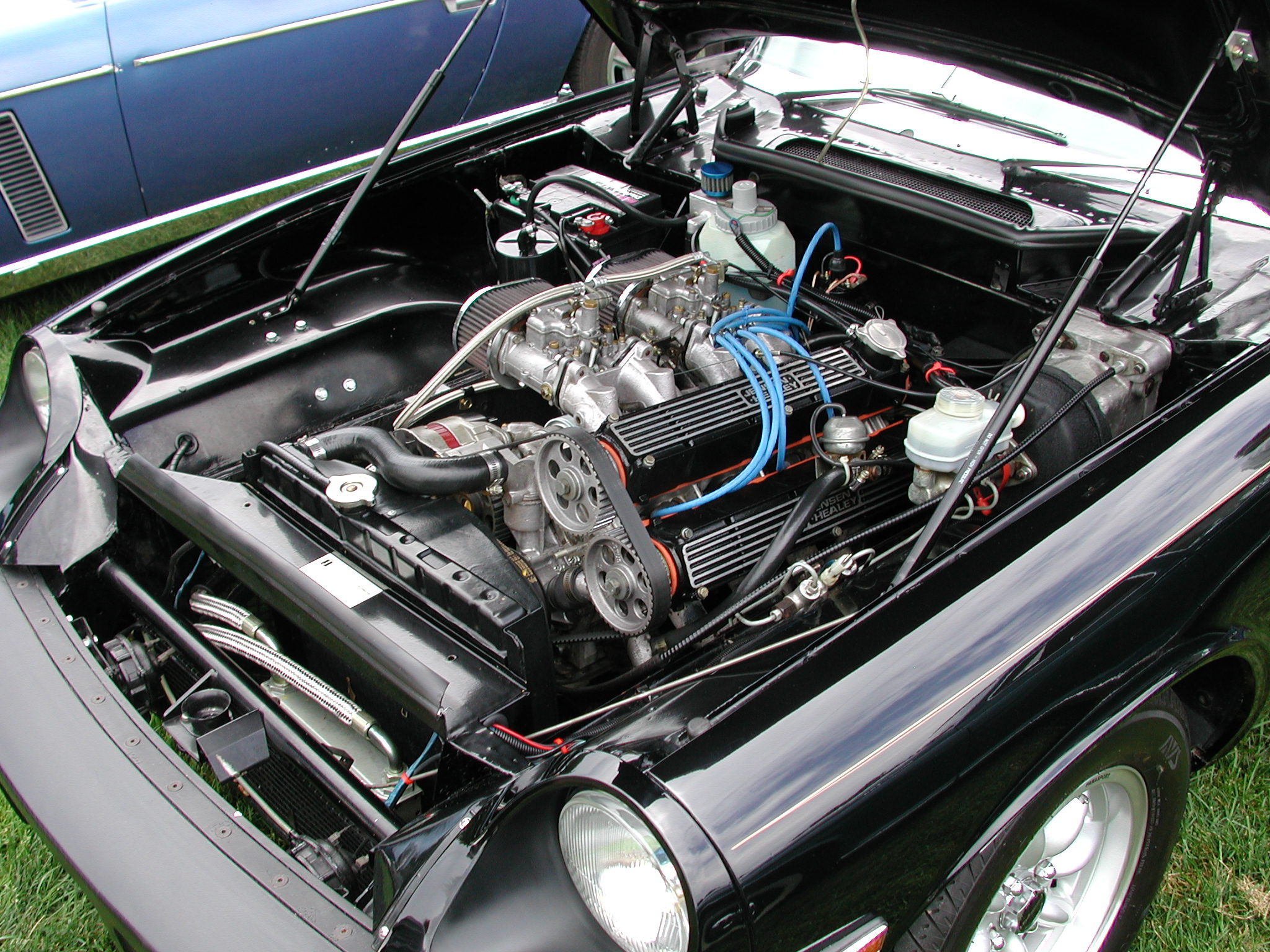 The engine compartment of a Jensen Healey roadster, with Lotus Type 907 twin-cam engine and Dellorto carburetors as supplied in Europe and UK.